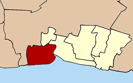 Map of Samut Prakan province, Thailand, highlighting Amphoe Phra Samut Chedi (geocode 1105).